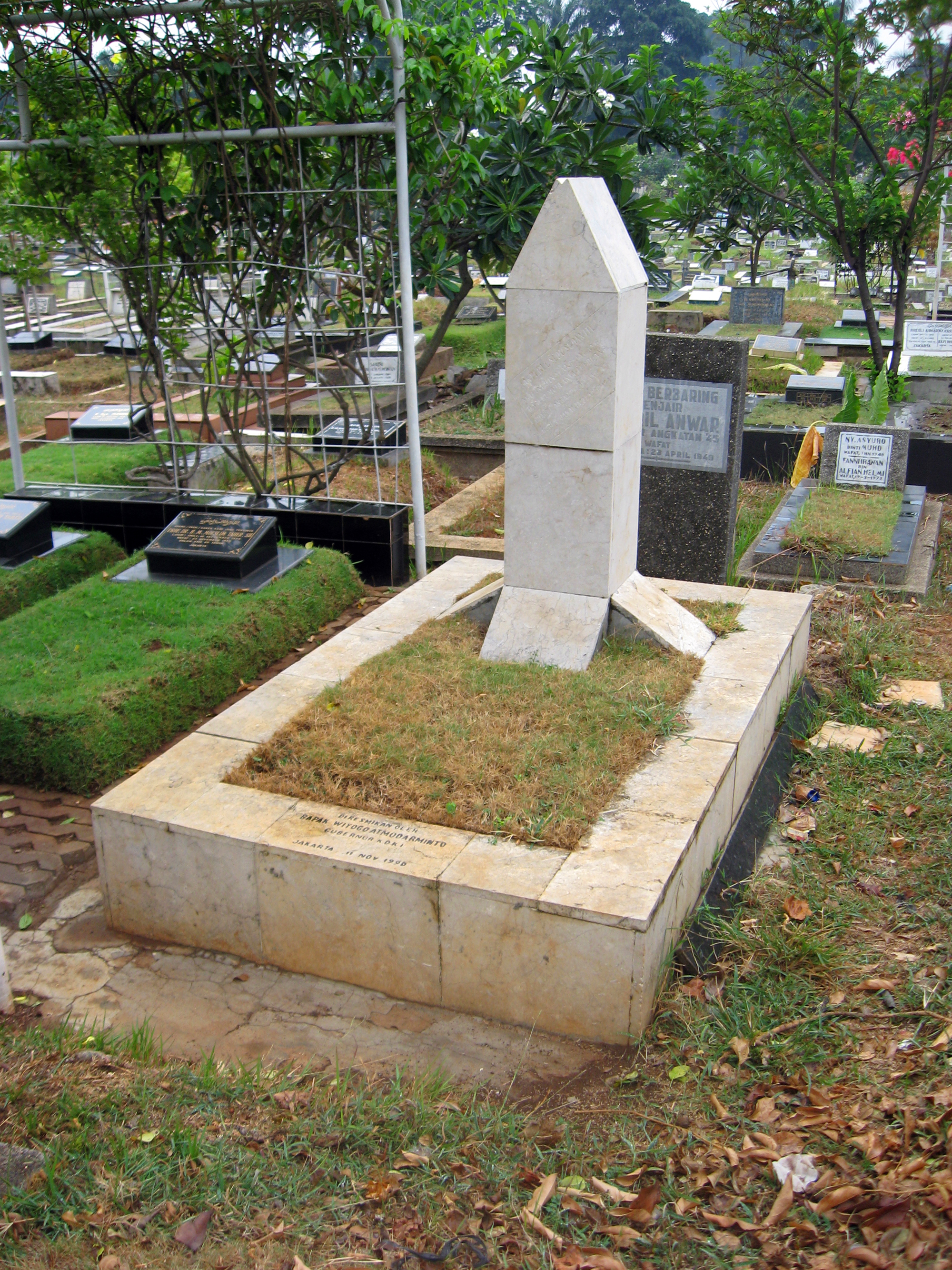 The grave of Indonesian poet Chairil Anwar in Karet Bivak cemetery, Jakarta